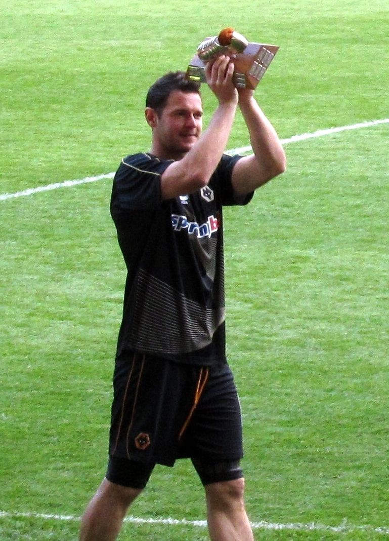 Matt Jarvis, Wolverhampton Wanderer, May 2011